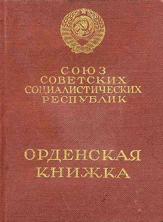 orden card with USSR decorations, order book for soviet orders